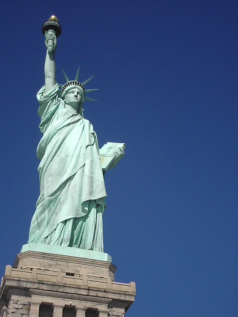 Statue of Liberty from Front